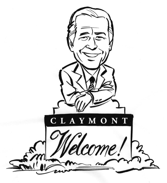 Joe Biden Caricature posing with a Claymont Welcome Sign